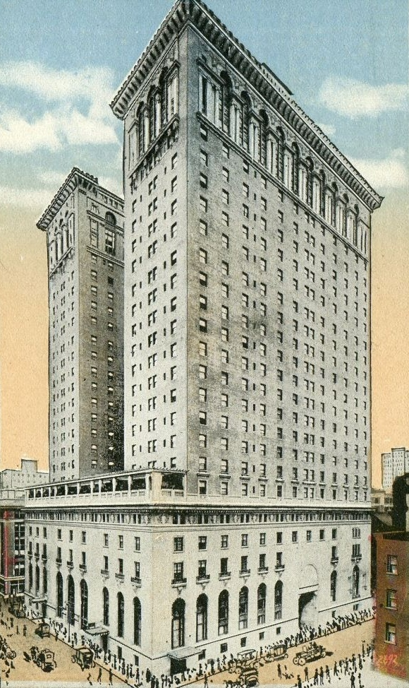 A 1917 postcard of the New York Biltmore Hotel.